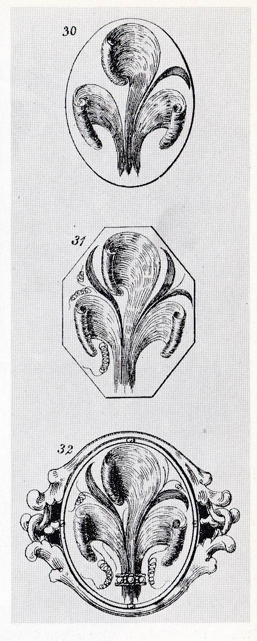 Lock of hair, 1871